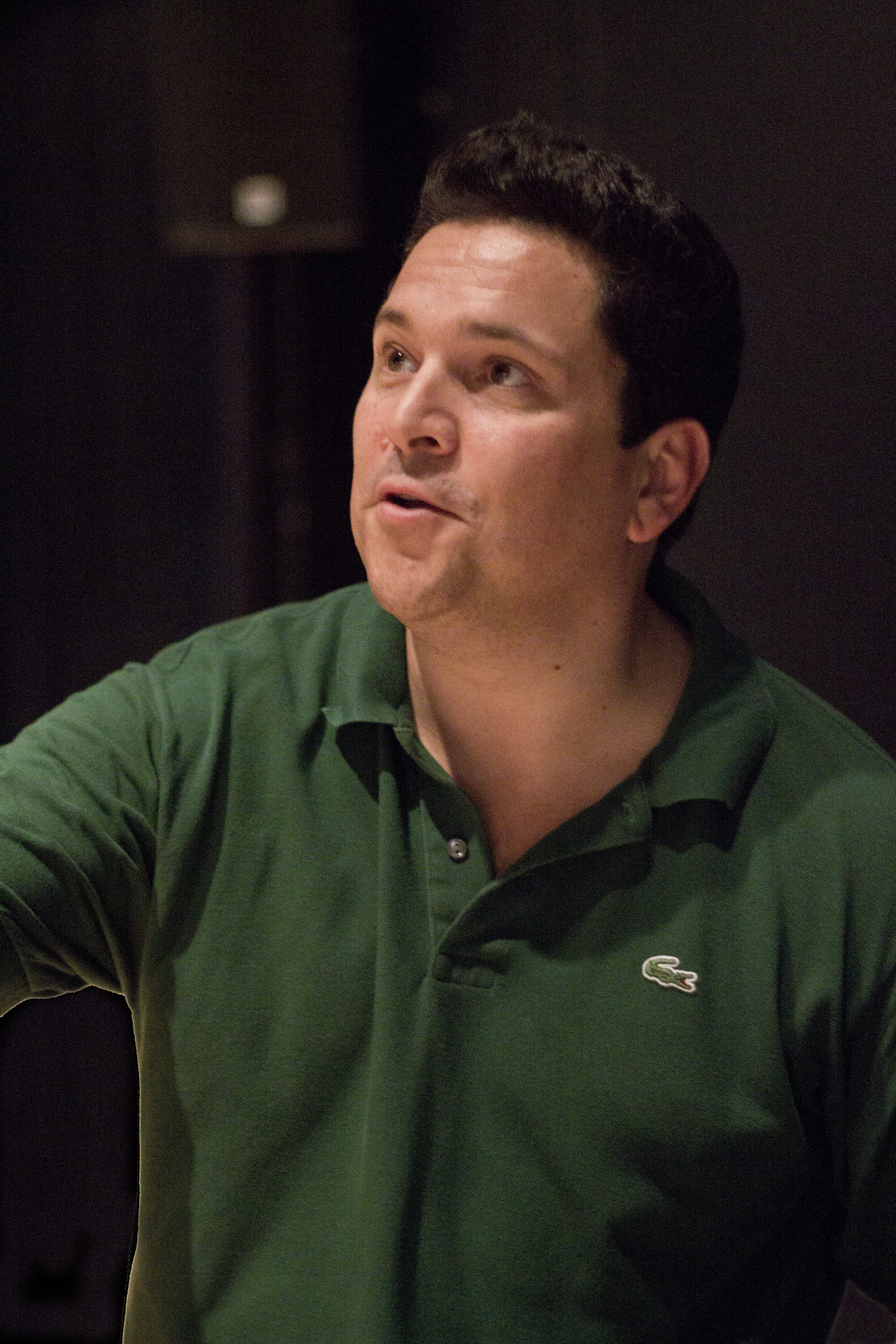 Dom Joly in Derby - 17th May 2011